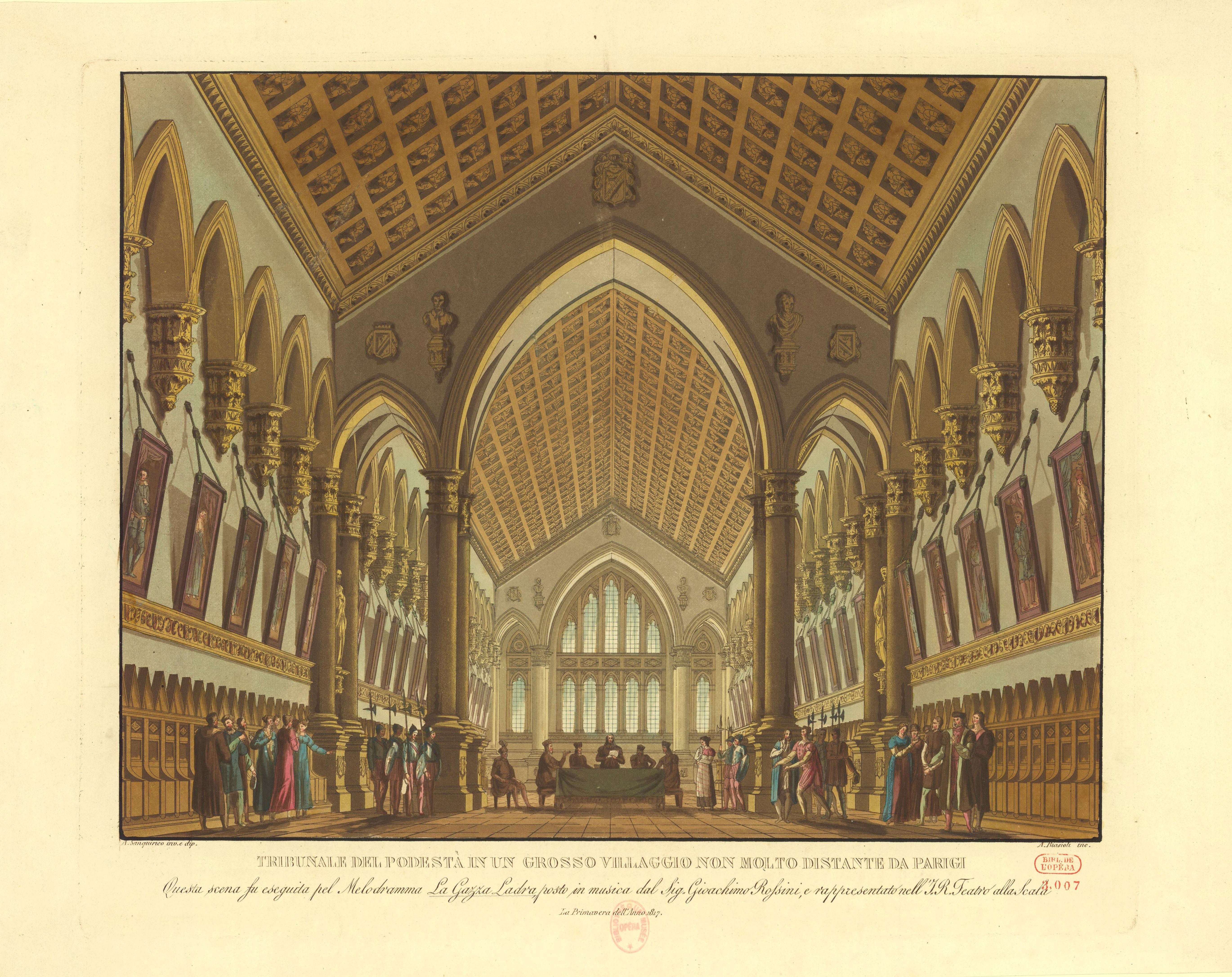 Opera La Gazza ladra (The Thieving Magpie) by Gioachino Rossini. Set design for the courtroom in act 2, Scene 9, for the premiere in Milan, Teatro alla Scala, May 31, 1817. Coloured aquatint by Angelo Biasioli after a drawing by set designer Alessandro Sanquirico.